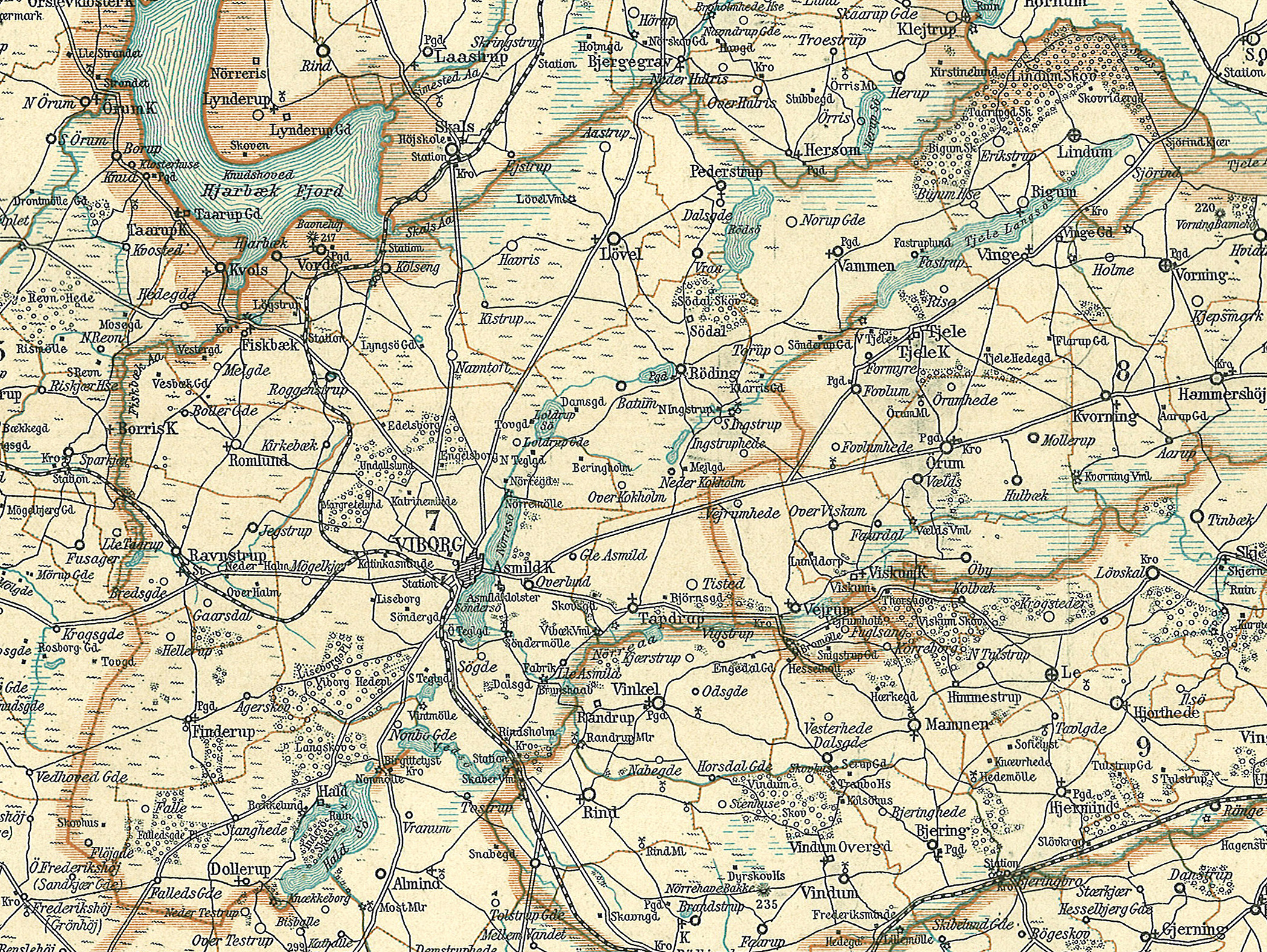 Map of Nørlyng Herred in the eastern part of Viborg County in Denmark